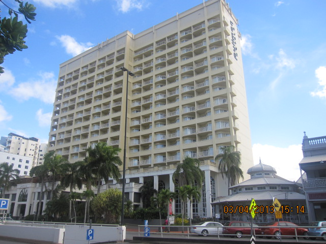 Cairns 2nd tallest the 55m Pullman International Hotel